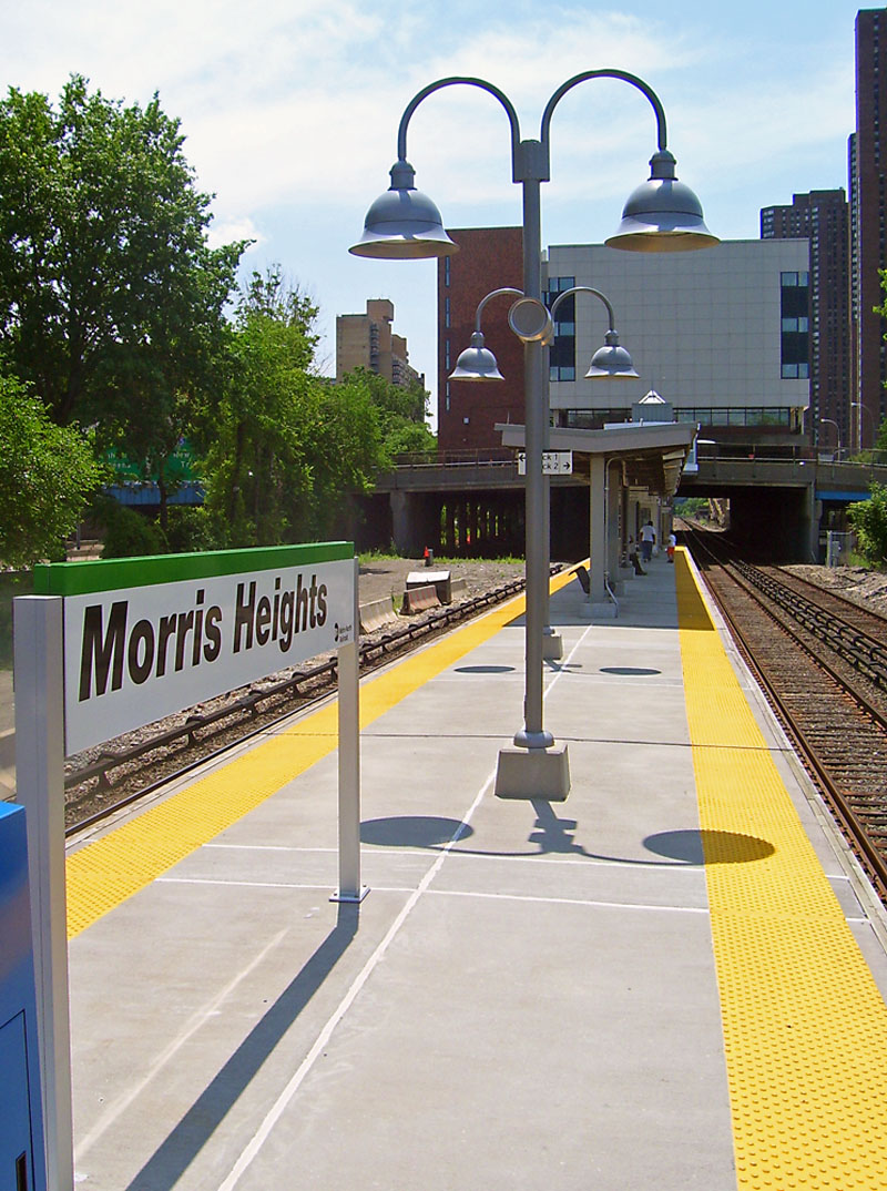 Photographed by Daniel Case 2006-07-07